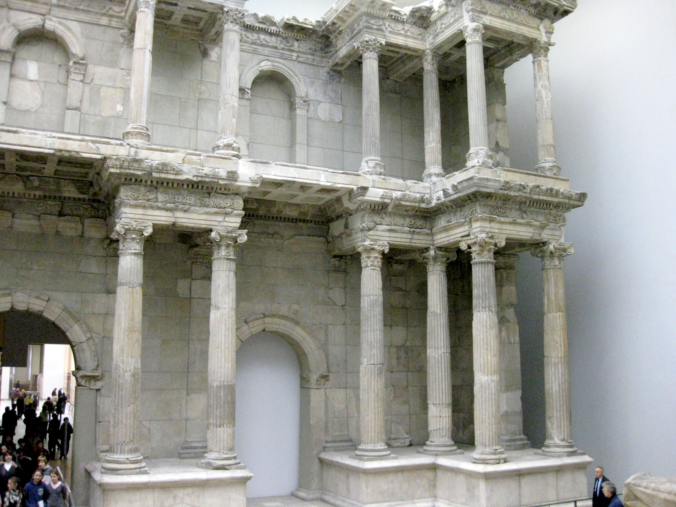 Market Gate of Miletus, right side